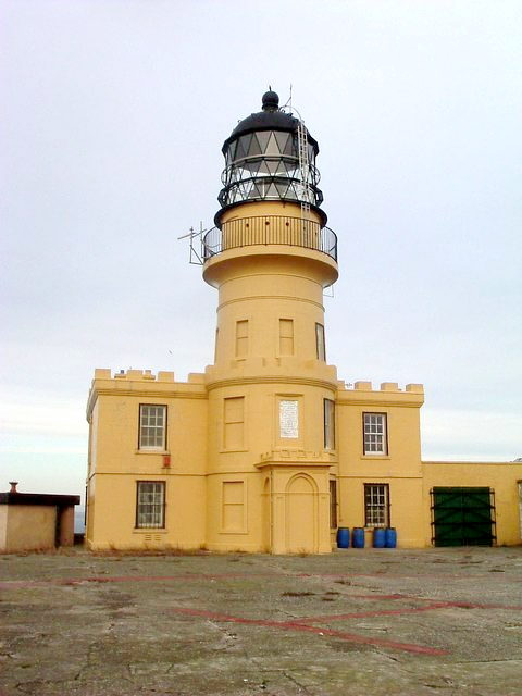 Inchkeith Lighthouse, Firth of Forth Inchkeith Lighthouse was erected by Thomas Smith & lighted on 14th September 1804. Thomas Smith was step father of Robert Stevenson, founder of the famous family of lighthouse builders, and grandfather of Robert Louis Stevenson.